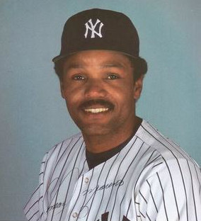 Professional baseball player Omar Moreno